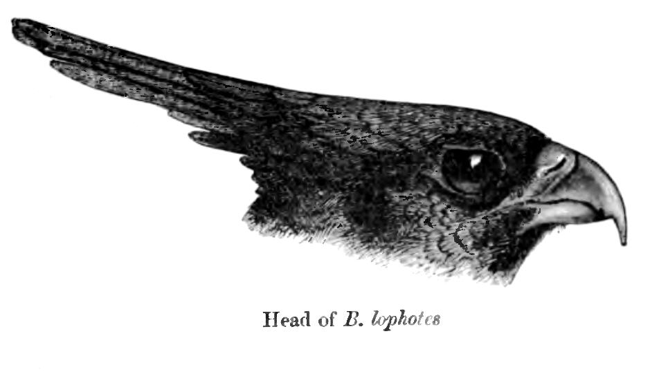 Bill of Aviceda leuphotes showing notch